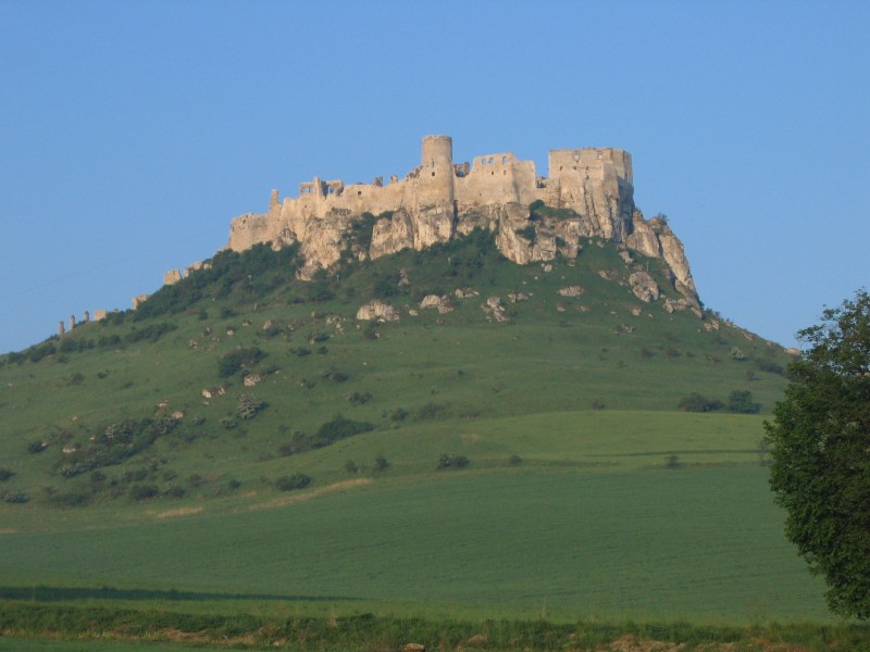 Spis Castle from, picture from northeast, may 2007